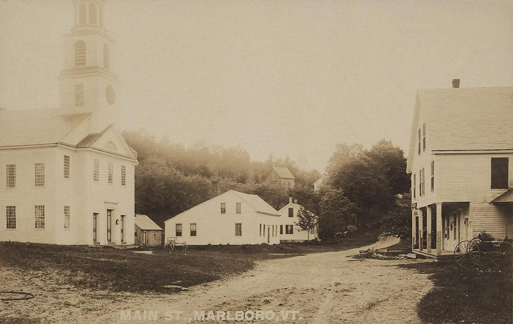 View of Marlboro, Vermont. At left is the Congregational Church, built in 1820. It burned in 1931 and was replaced with a replica. At right is Baxter's Store.